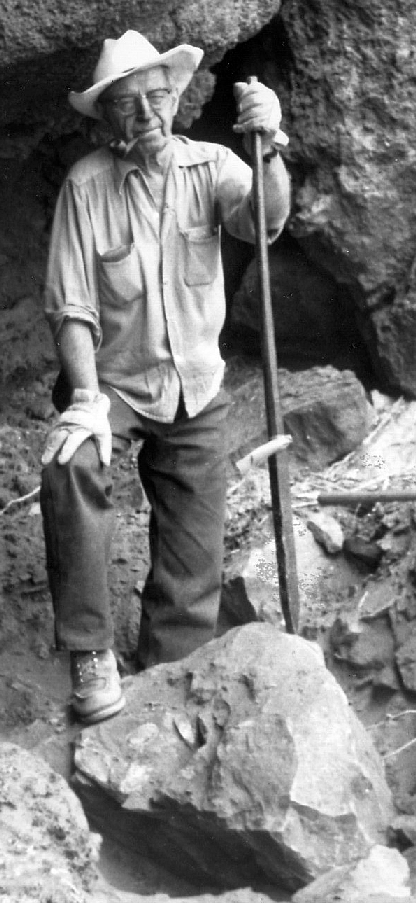 Luther Cressman, the "father of Oregon archaeology".